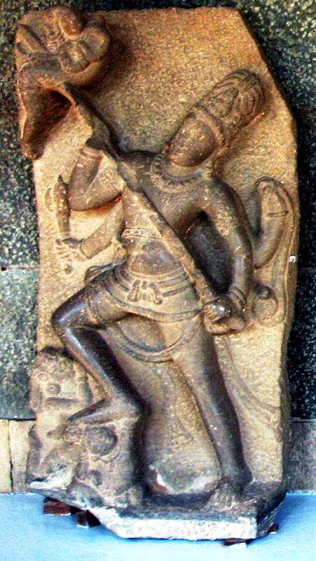 Andhakasuravadha, Chhatrapati Shivaji Maharaj Vastu Sangrahalaya